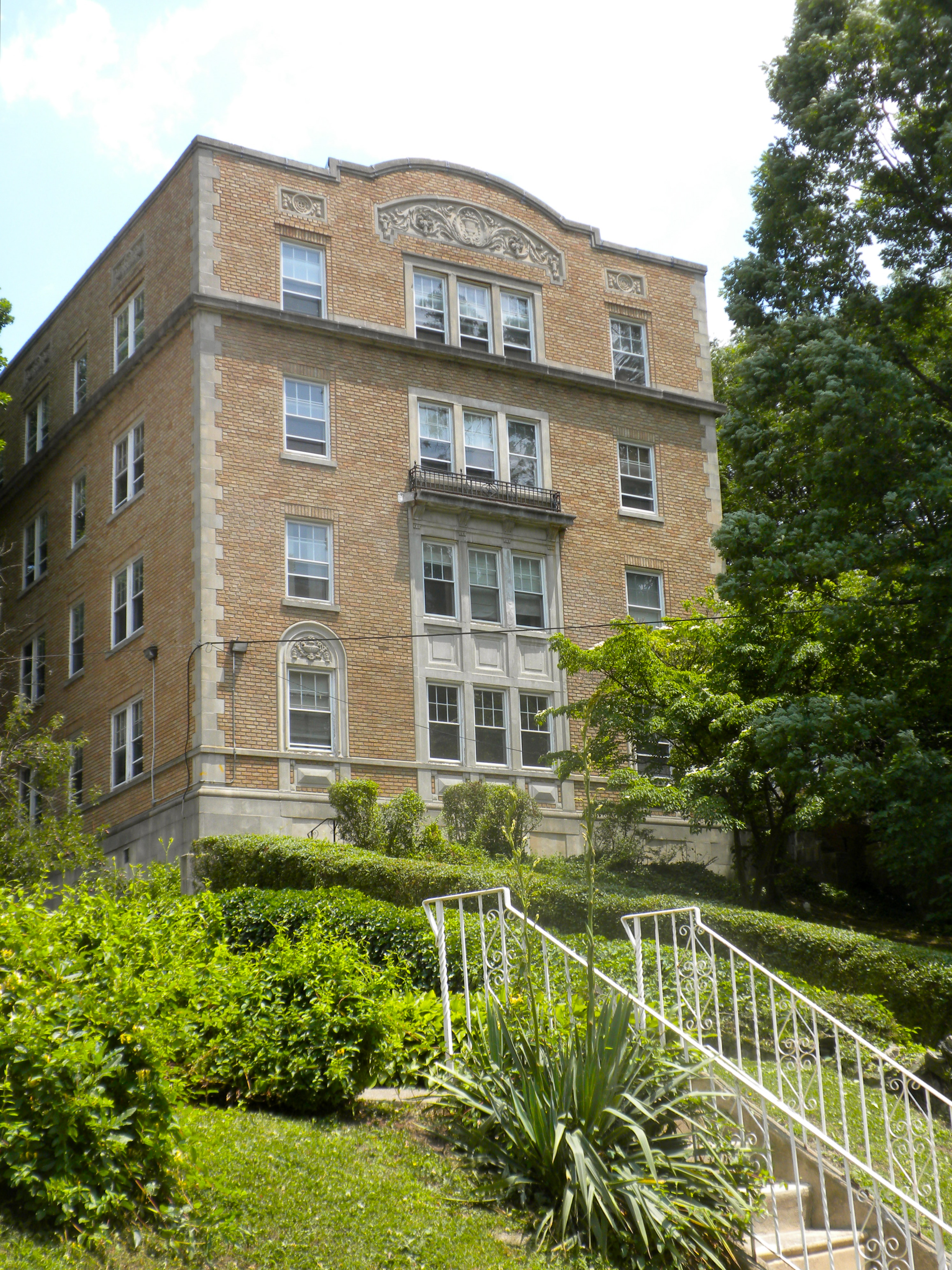 Malvern Hall on NRHP since August 25, 1983. At 6655 McCallum Street in Mount Airy neighborhood of Northwest Philadelphia. Right next to the "McCallum" apartment building which is much bigger. Malvern Hall is much bigger than shown here this is just one wing, but it is spread out horizontally, so is hard to photograph.